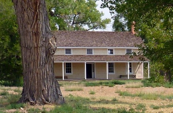 Boggsville